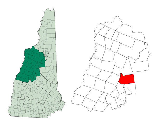 Map of a municipality in Belknap County, New Hampshire